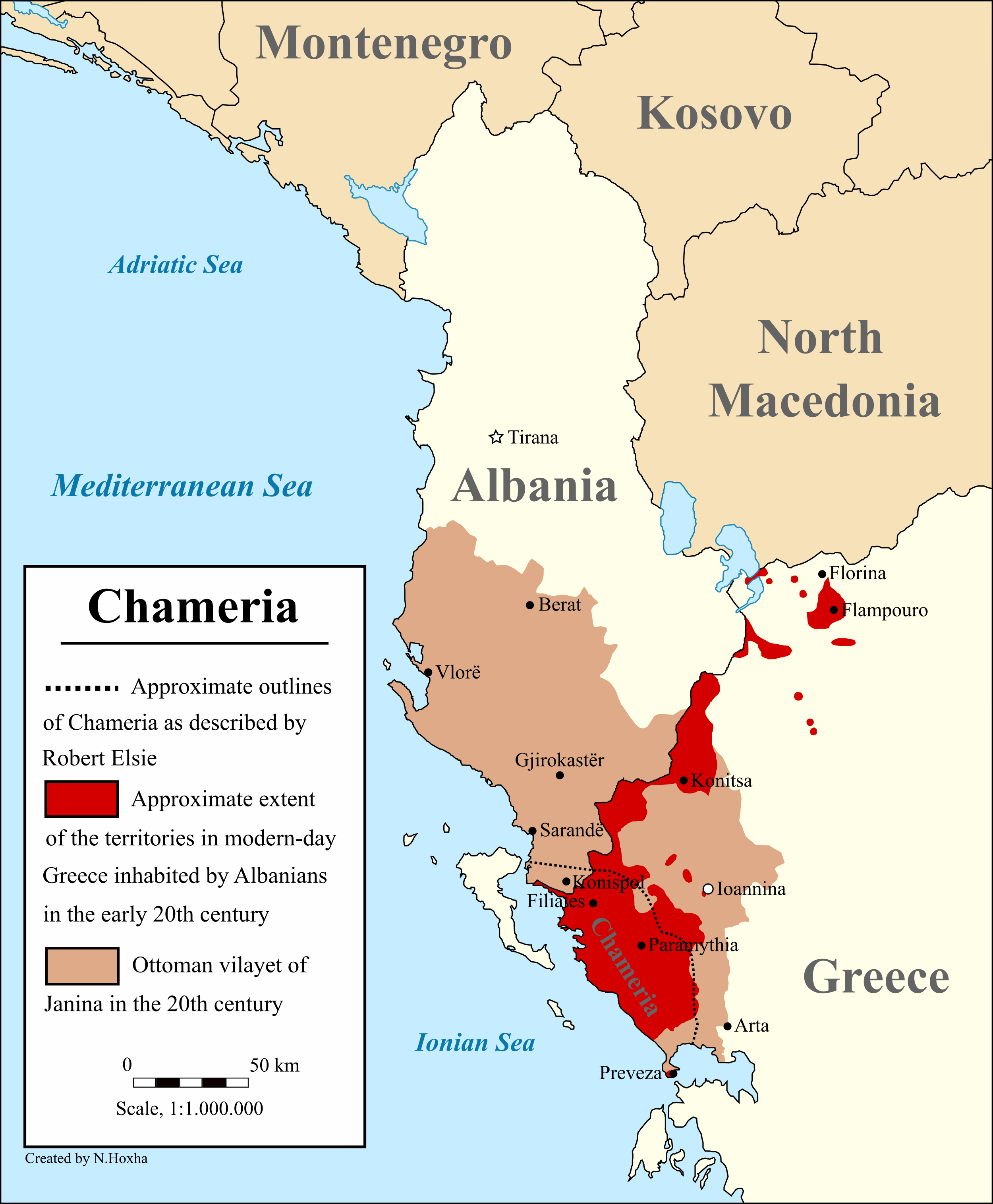 The map illustrates the outlines of the historic region of Chameria as described by Robert Elsie. The map displays also the Ottoman vilayet of Janina and the approximate territories in contemporary Greece with high concentrations of Albanians in the early 20th century.